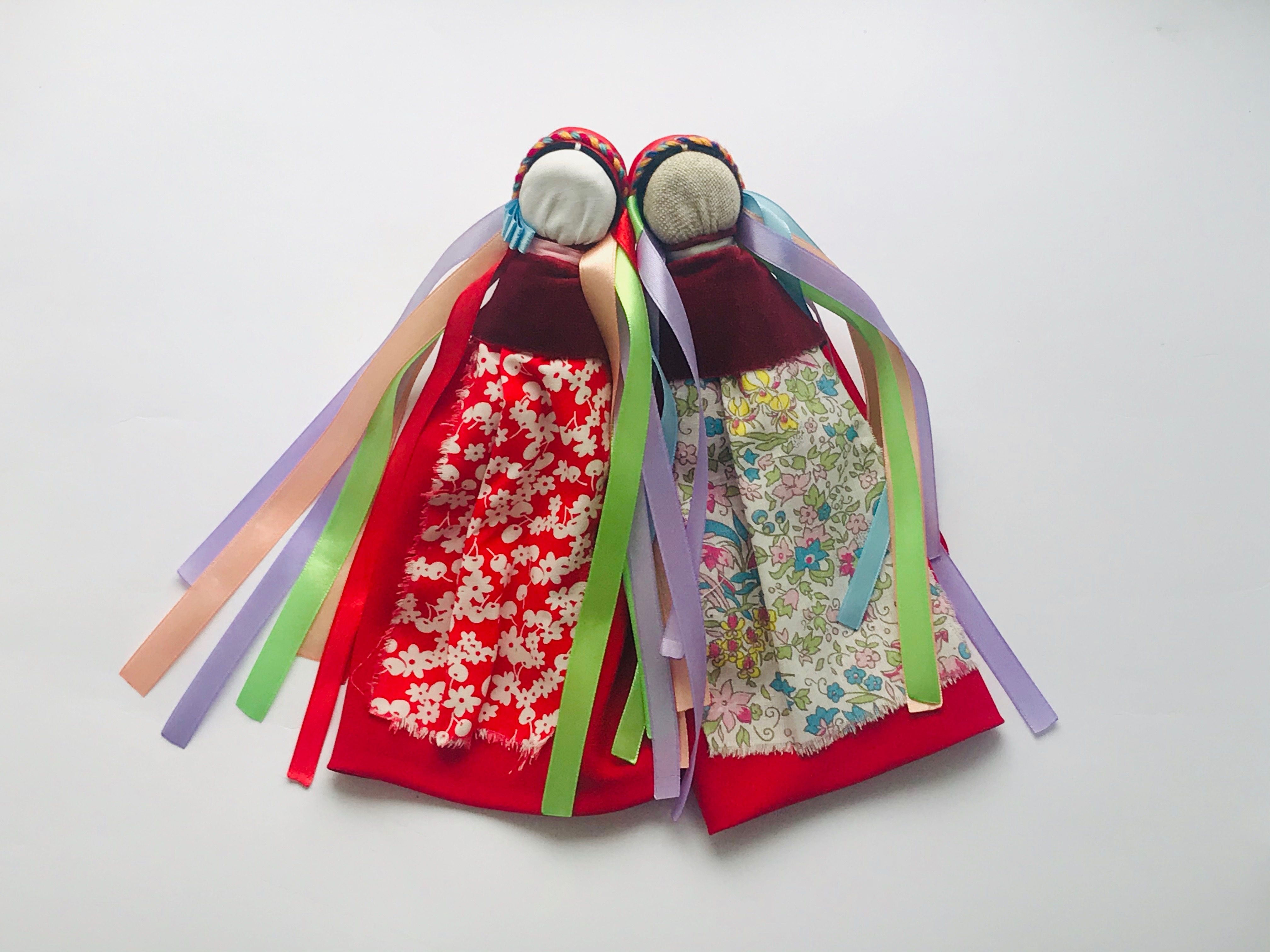 Фото реконструйованих ляльок Київщини,с.Германівка Обухівського р-ну,1970-і роки.автор Каноненко К.А.,з зібрання О.Найдена.Автор реконструкцій О.Мединська,м.Кропивницький